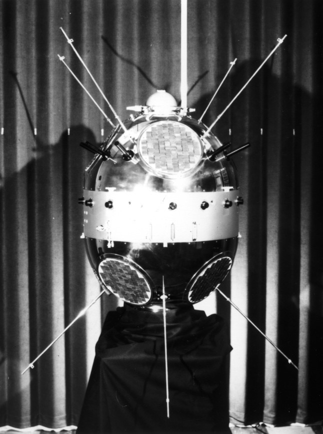 Poppy ELINT Satellite (Type 1)